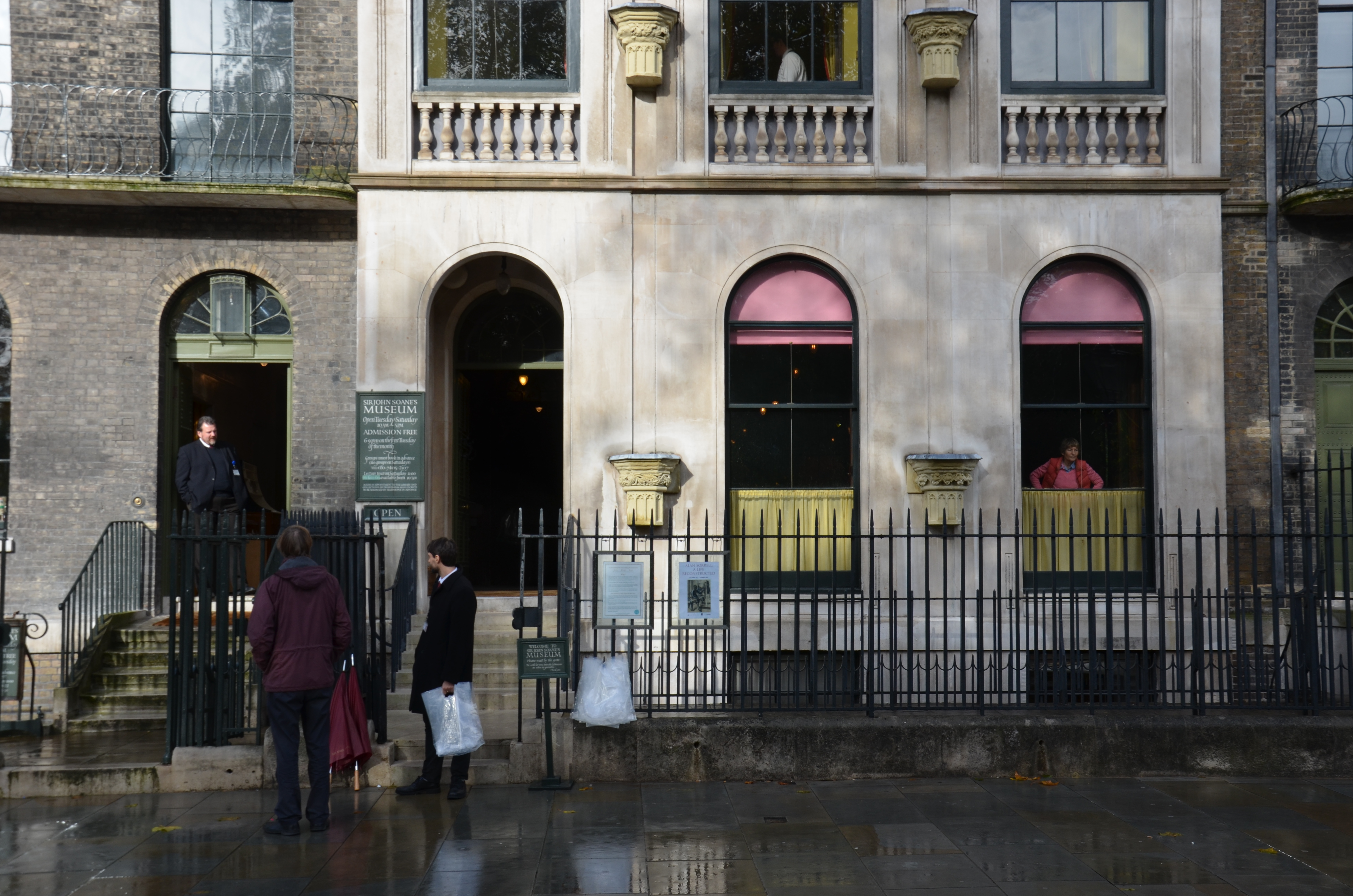 Entrance to Sir John Soane's House Museum in LOndon